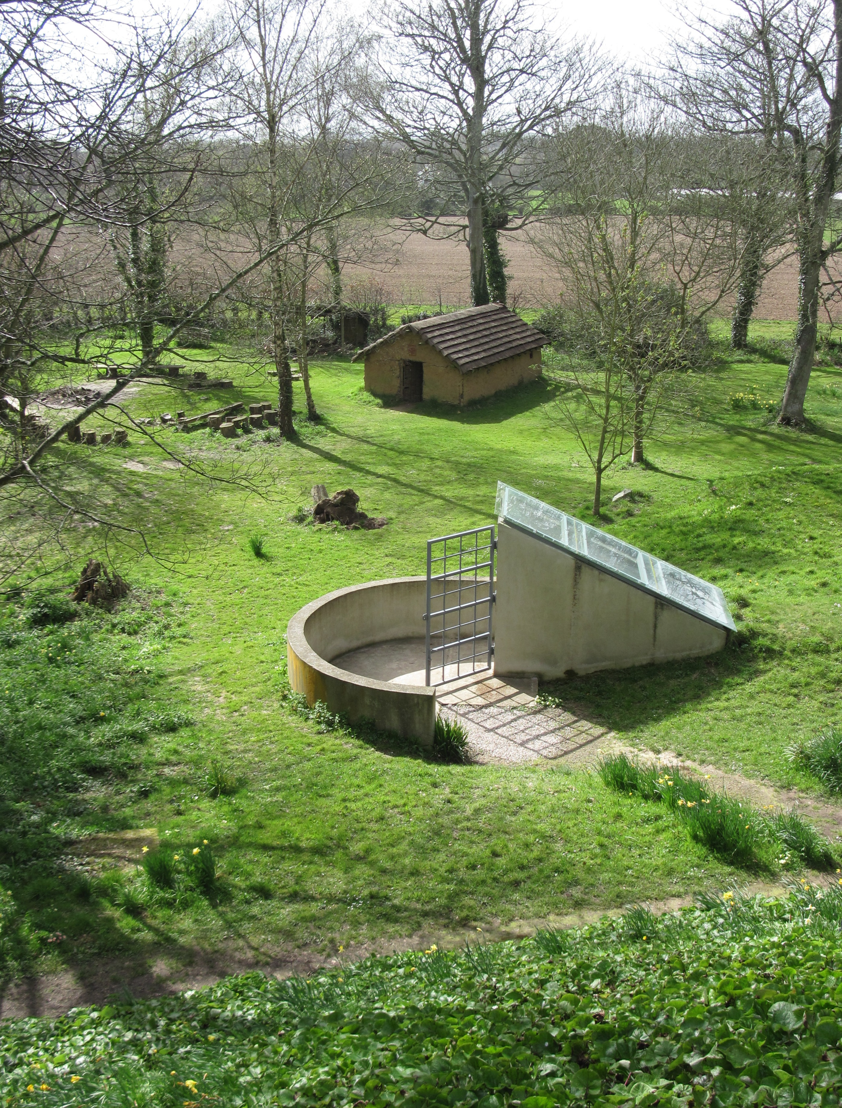 Nrf: La Hougue Bie